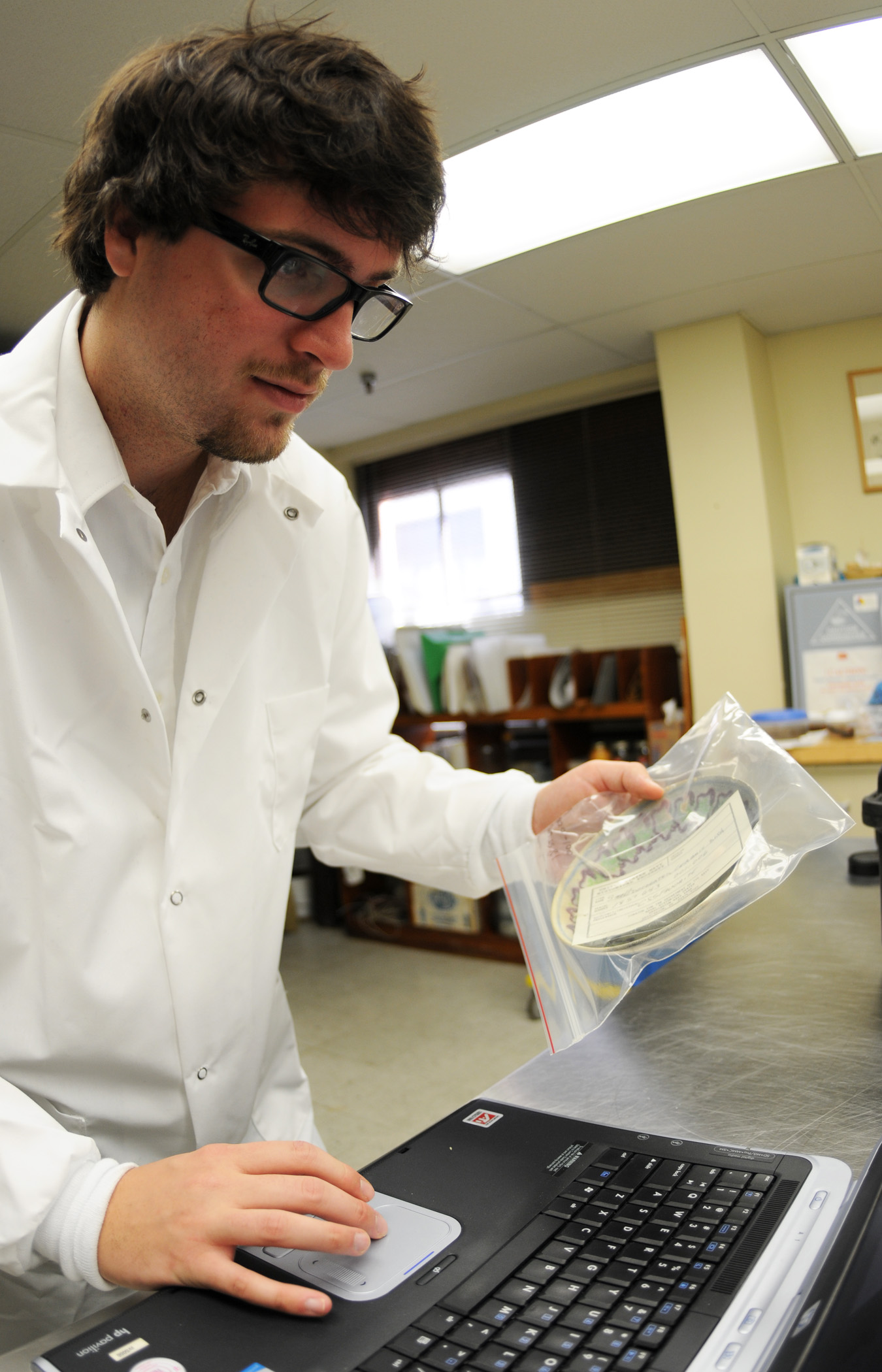 Underwater Archaeology lab technician cataloguing an artifact from USS Tulip